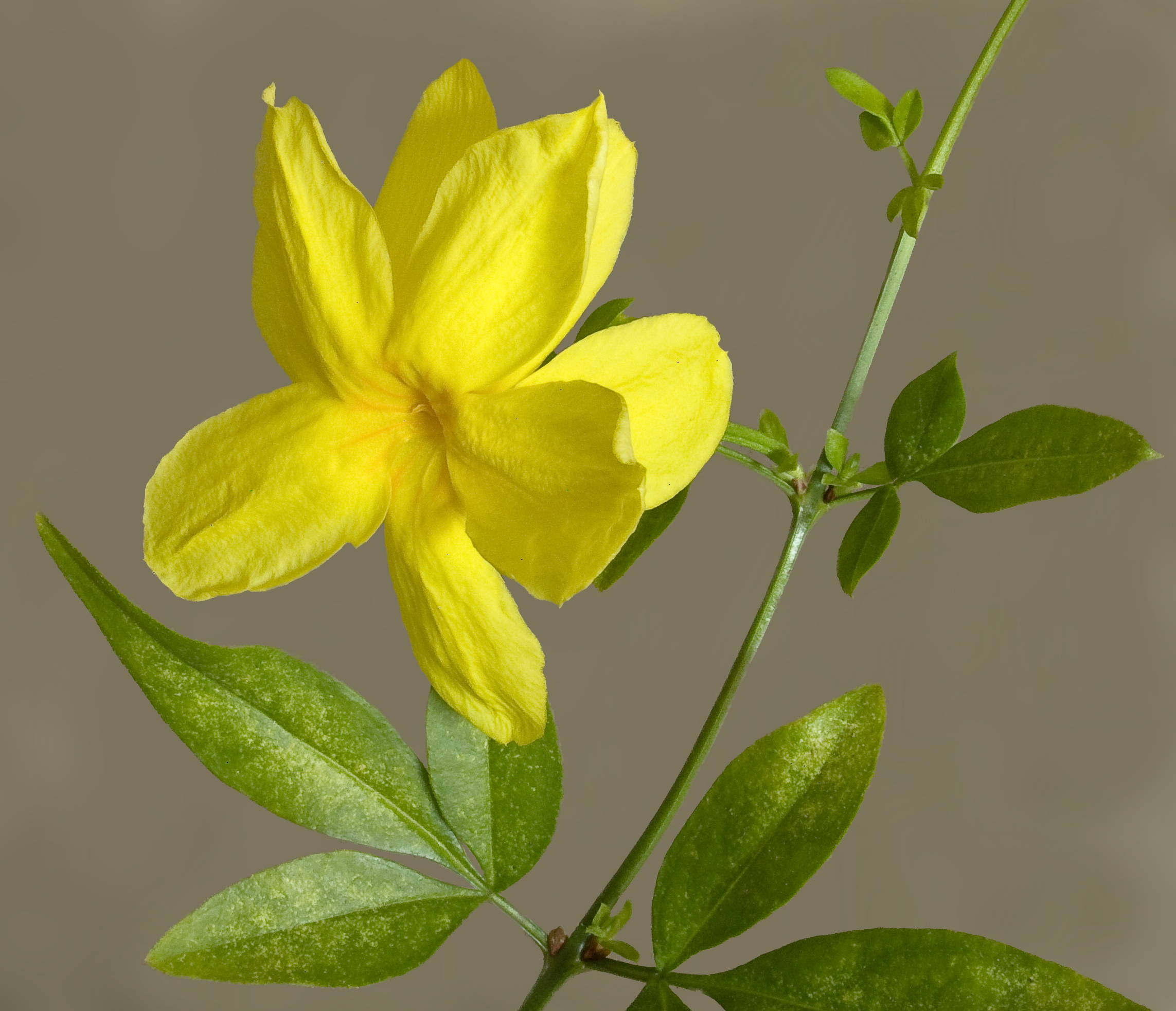 Flower of Jasminum mesnyi, the commonly cultivated semidouble ("hose-in-hose") form, grown in a greenhouse, West Midlands, England